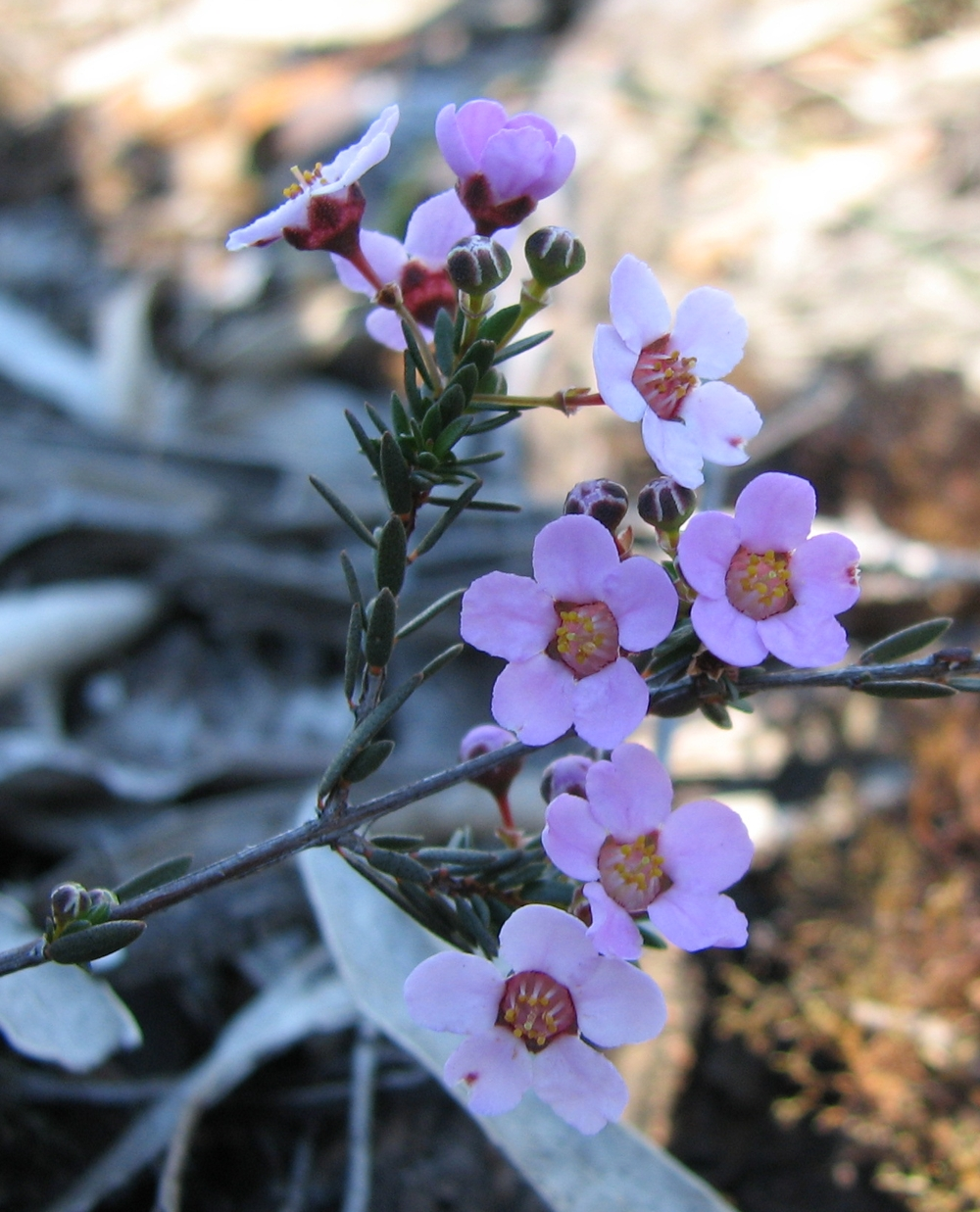 Euryomyrtus ramosissima Greater Bendigo National Park, Victoria, Australia